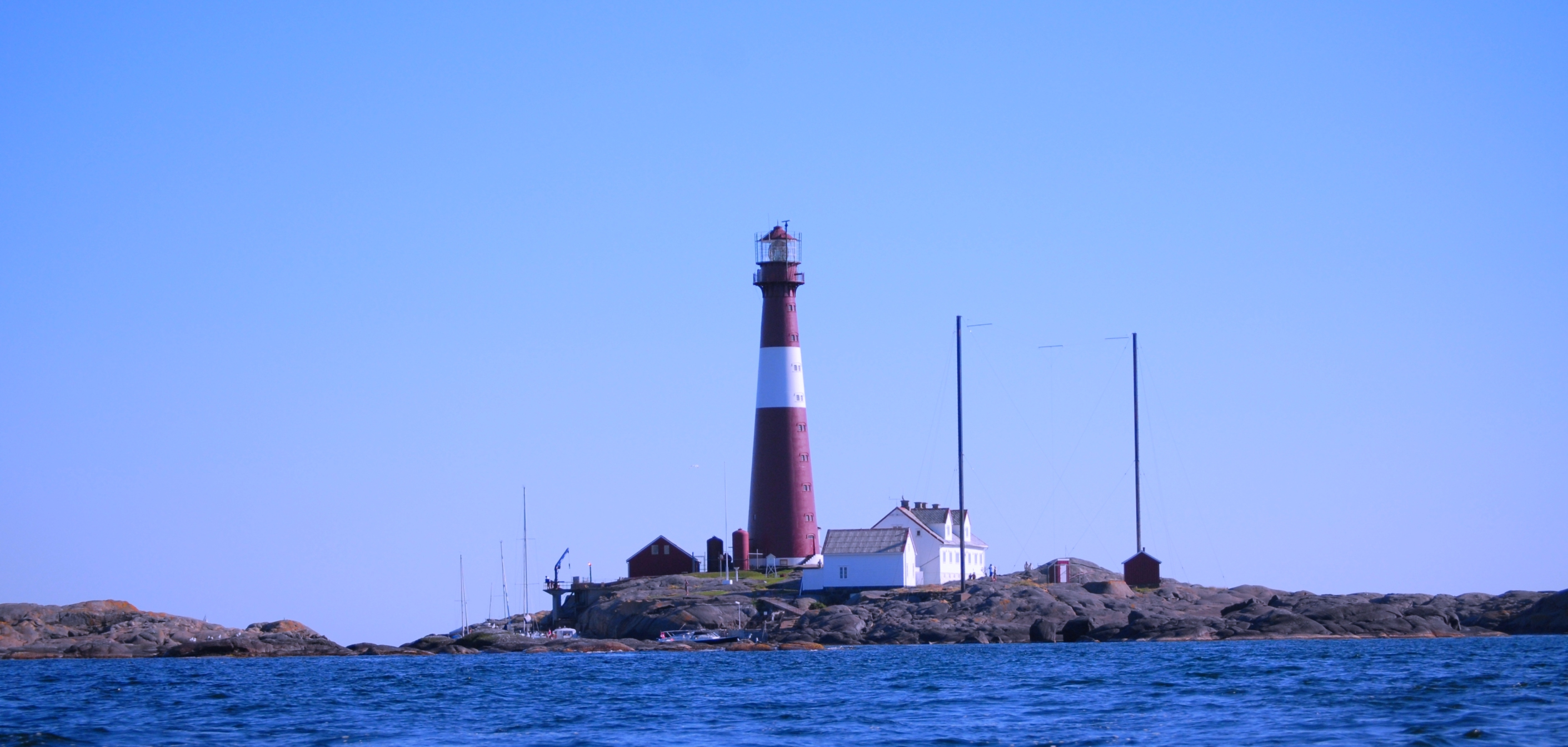 Færder fyr seen from the north.